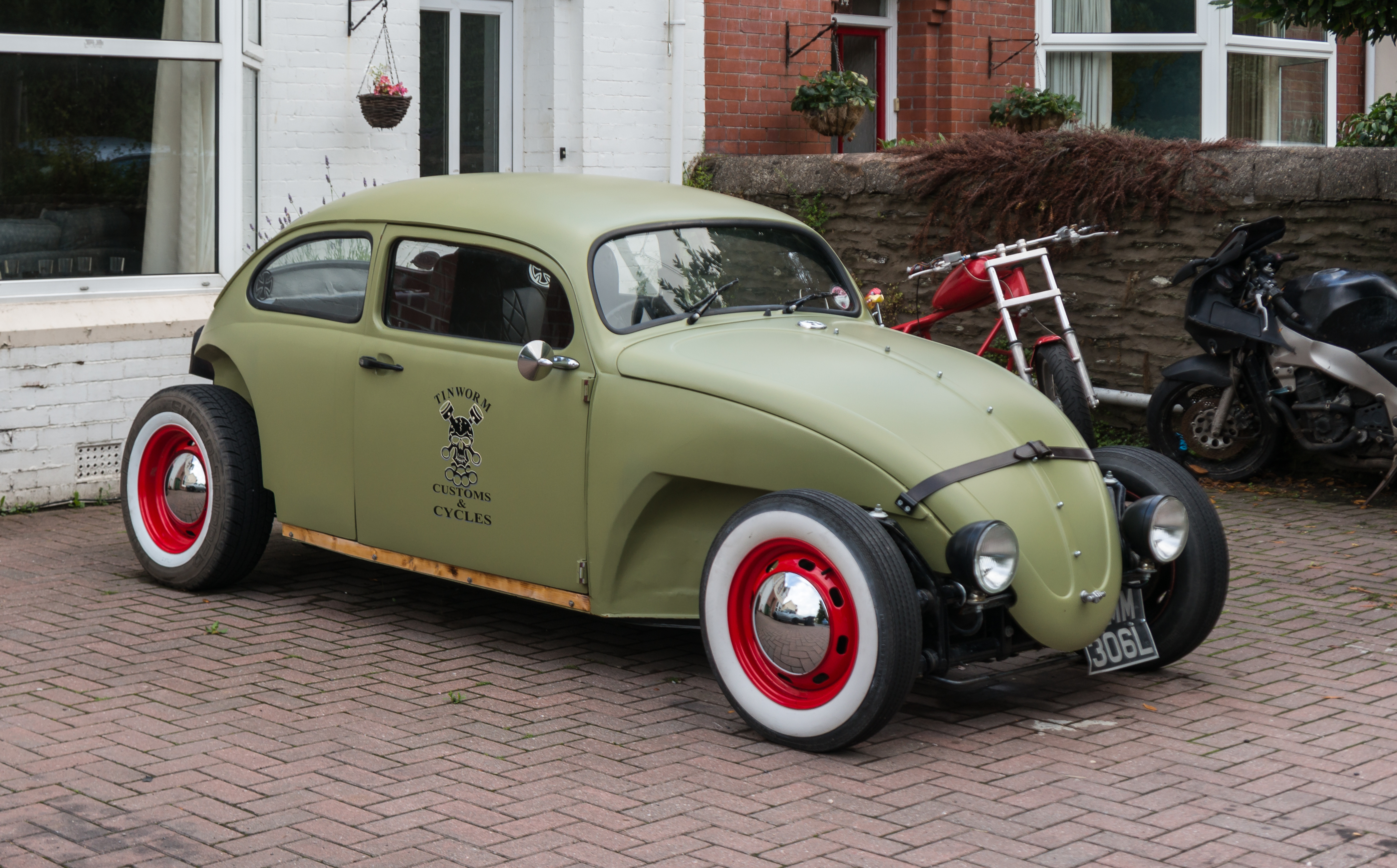 Volkswagen in Braunton, Devon, England